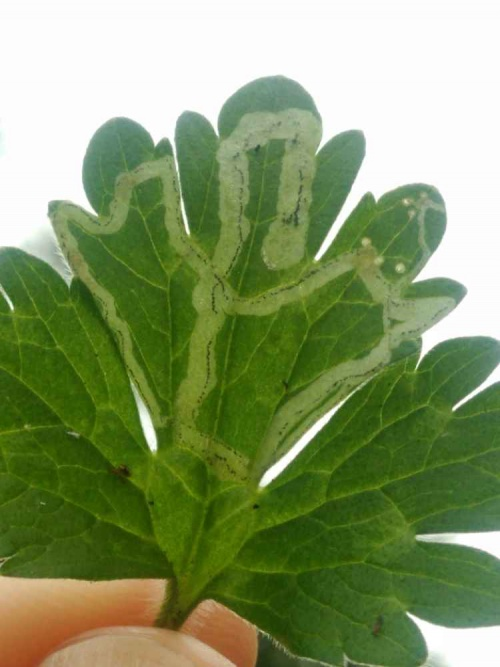 Phytomyza ranunculi mine on creeping buttercup (Ranunculus)